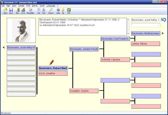 Screenshot of main menu of Ahnenblatt.